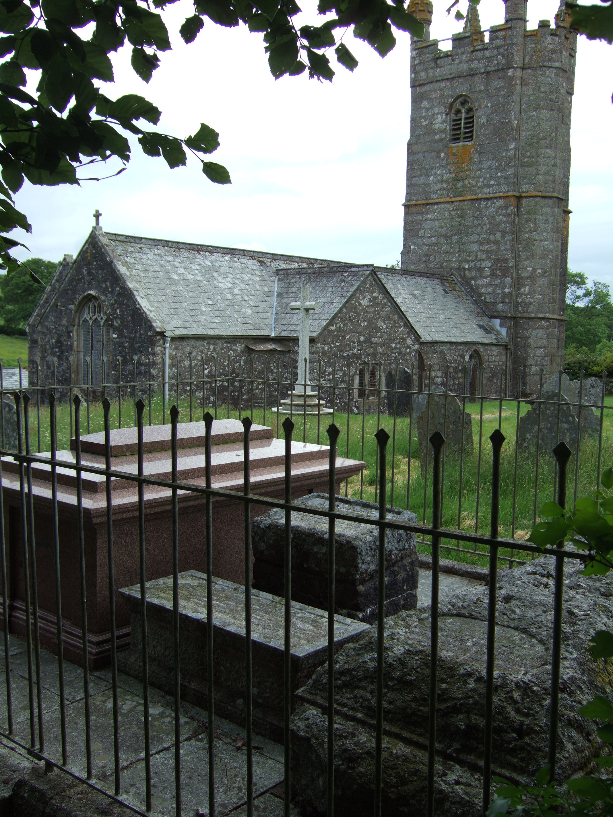 The graves of the Brooke White Rajahs of Sarawak, buried at St Leonard's Church, Sheepstor, Devon, England. In all, there are four graves inside the iron railings. The grave on the left is that of James Brooke, (1803-1868), the first Rajah of Sarawak. On the right is the grave of his nephew, Charles Brooke (1829-1917), second Rajah of Sarawak. The two graves in the centre are those of two of the sons of Charles Brooke: Closest to the church, the slightly higher of the two central graves, is that of Charles Vyner Brooke, (1874-1963), the third and final Rajah of Sarawak. Closest to the camera, the slightly lower of the two central graves, is that of Bertram Willes Dayrell Brooke, (1876-1965), the Tuan Muda. Outside the railed area are four other grave markers of members of the Brooke family: Kathleen Mary Brooke (1907-1981), first wife of Anthony Walter Dayrell Brooke and sometime Ranee Muda of Sarawak; Angela Brooke (1942-1986), daughter of Anthony Walter Dayrell Brooke and Kathleen Brooke; Anne, Lady Bryant (1910-1993), daughter of Bertram Willes Dayrell Brooke; and J.C.V.C. 'Jimmy' Brooke, (1911-1995) son of Harry Brooke.